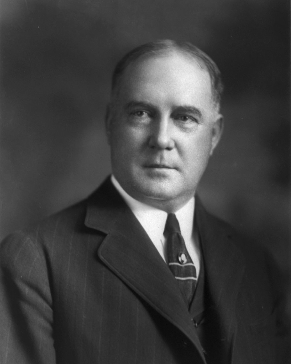 Official Congressional portrait of Andrew Jackson Montague